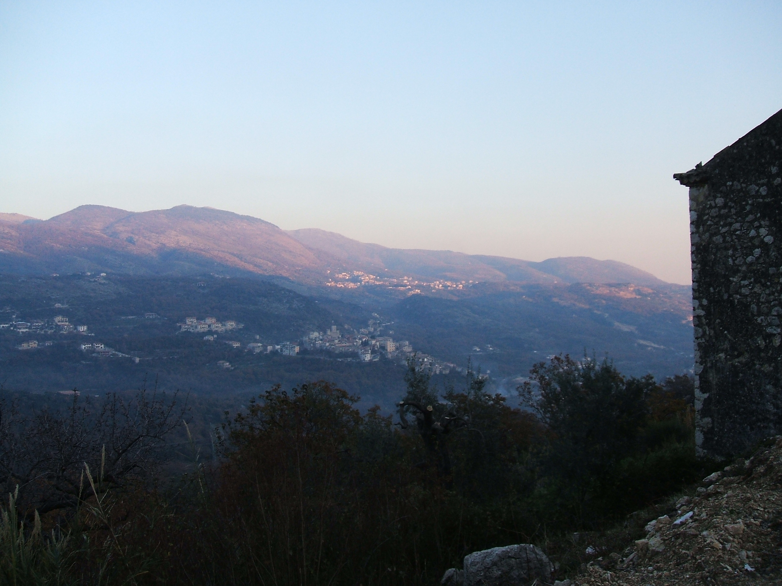 View of Ausonia town center and, on the back, Coreno town center; Provincia di Frosinone, Regione Lazio (Frosinone Province, Latium Region, Italy).